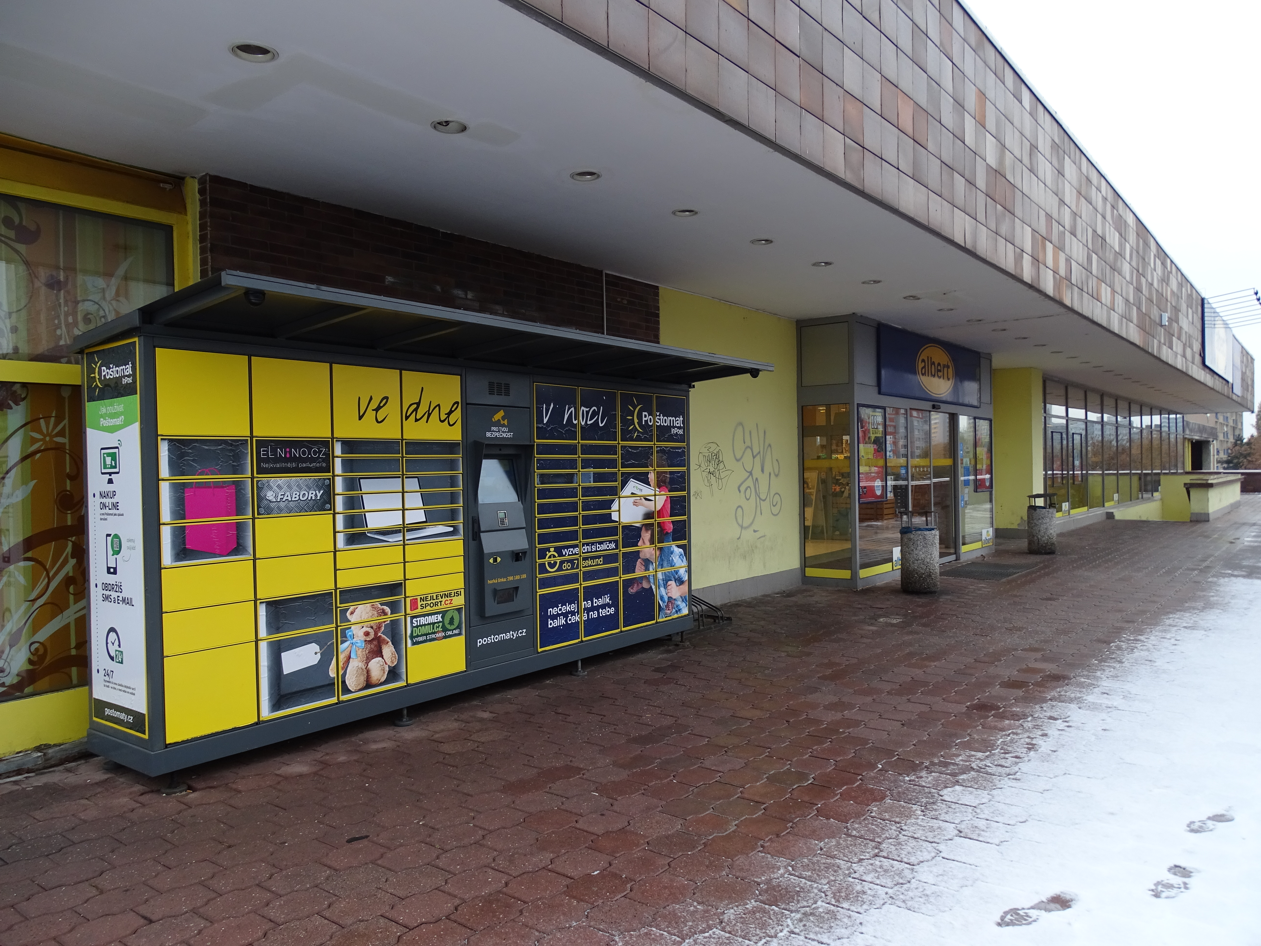 Prague-Chodov, Czechia. Brandlova 1599/8, a shopping centre, Poštomat.